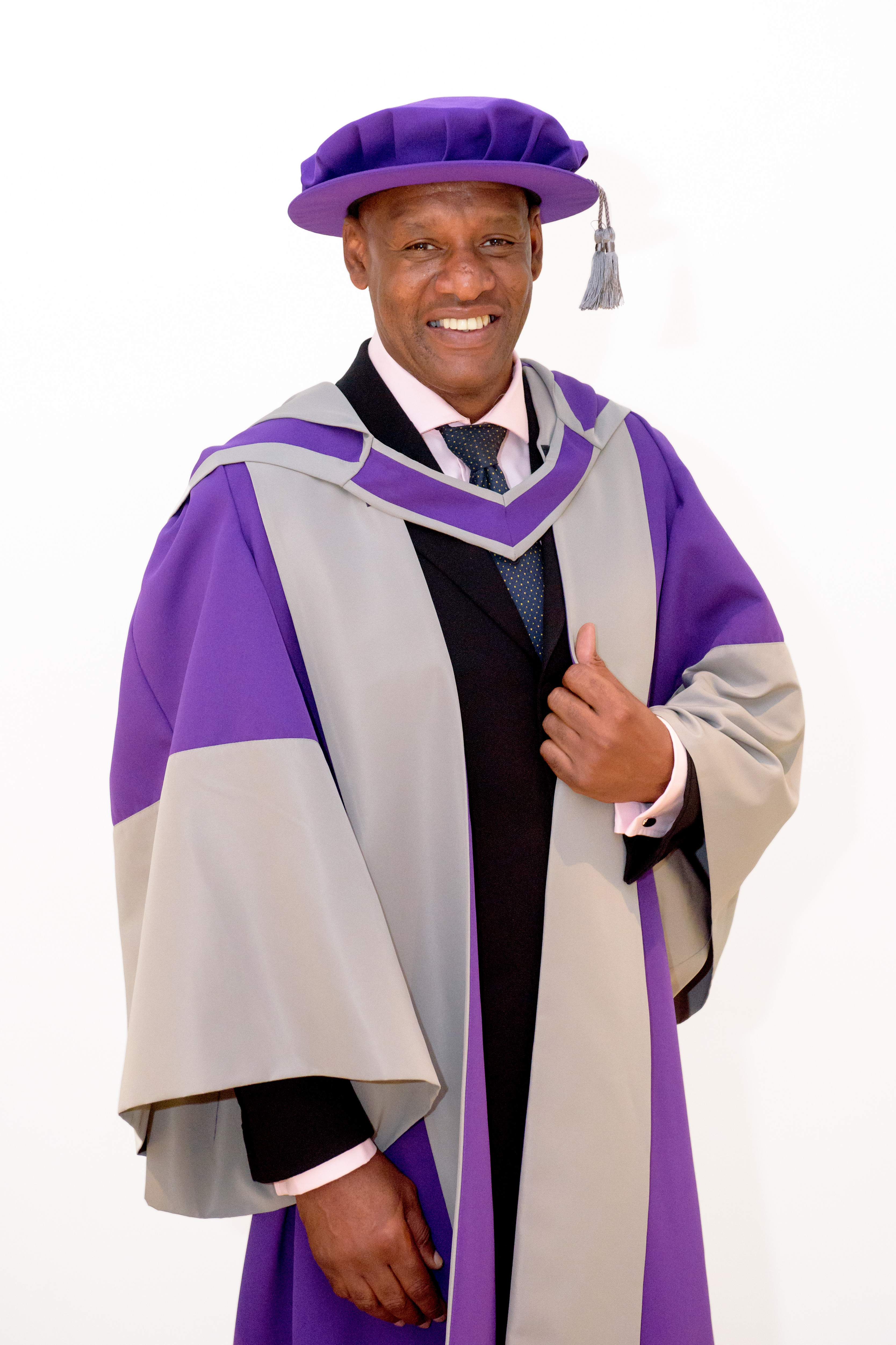 Honorary Doctorate of Law, July 2015